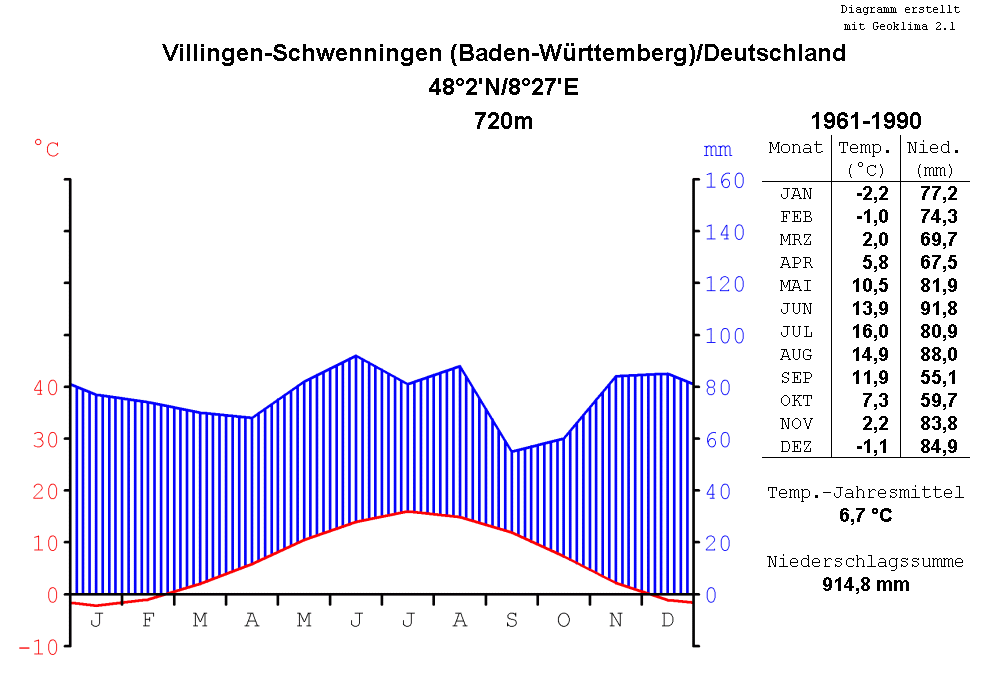 climate chart of Villingen-Schwenningen, Baden-Württemberg, Germany, for the period of time from 1961 to 1990, in the format by Walter and Lieth, metric, °Celsius and millimeters, chart made with Geoklima 2.1, label in German